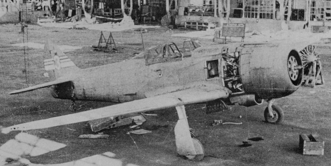 Kawasaki Ki-100-II Tokyo, Japan 1945